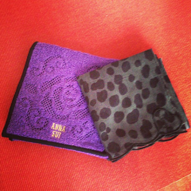 An Anna Sui mini-towel (left) and a YSL handkerchief purchased in Japan, 2013, to cope with the heat.